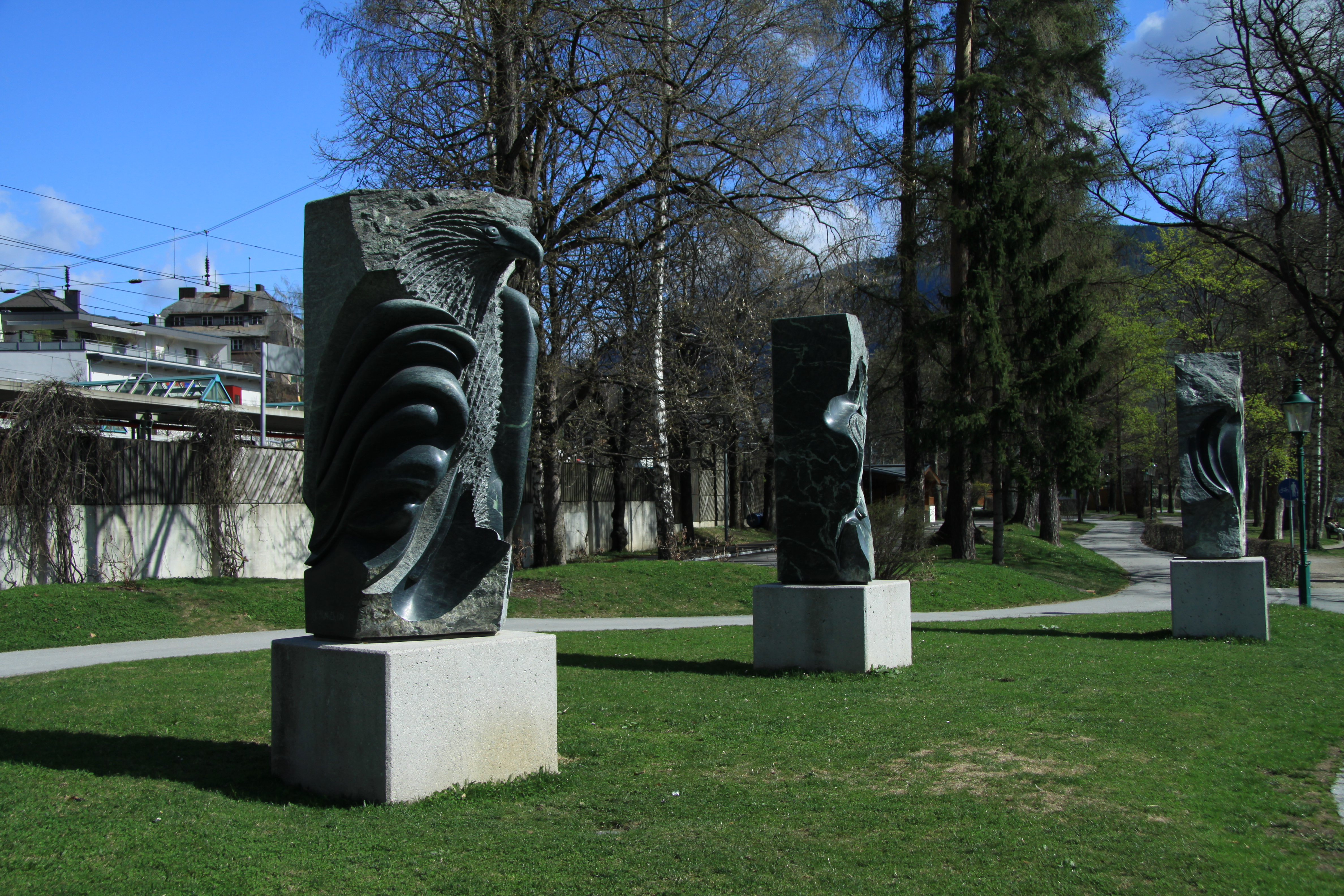 Sculptures by Johann Weyringer in Zell am See, Austria